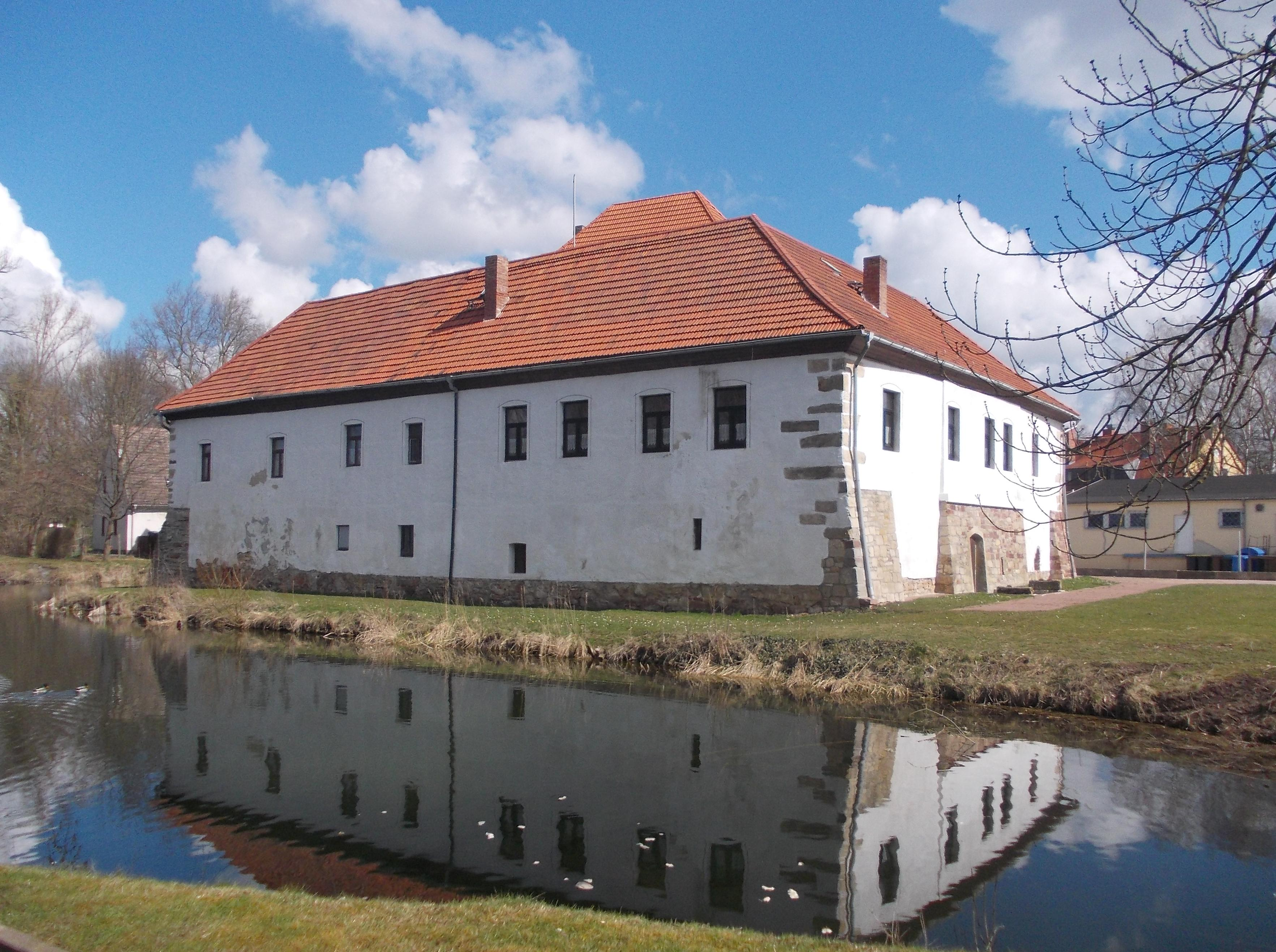 The water castle of Oberfarnstädt (Farnstädt, Saalekreis, Saxony-Anhalt)